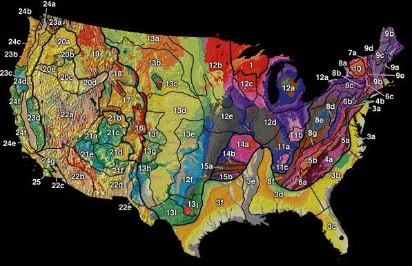 USGS Physiographic Regions Map from [1]